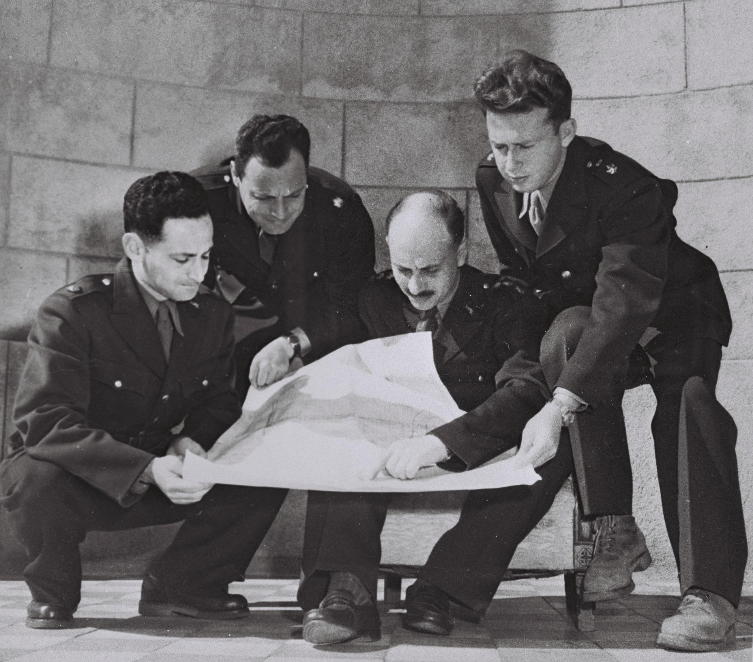 Members of Israeli Delegation to Armistice talks in Rhodes studying a map. L-R: maj. Yehoshafat Harkabi, maj. Arieh Simon, col. Yigal Yadin and lt. col. Yitzhak Rabin.